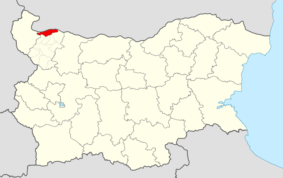 Location map of Lom Municipality within Bulgaria and Montana Province. Equirectangular projection, N/S stretching 130 %. Geographic limits of the map: N: 44.4° N S: 41.1° N W: 22.1° E E: 28.9° E